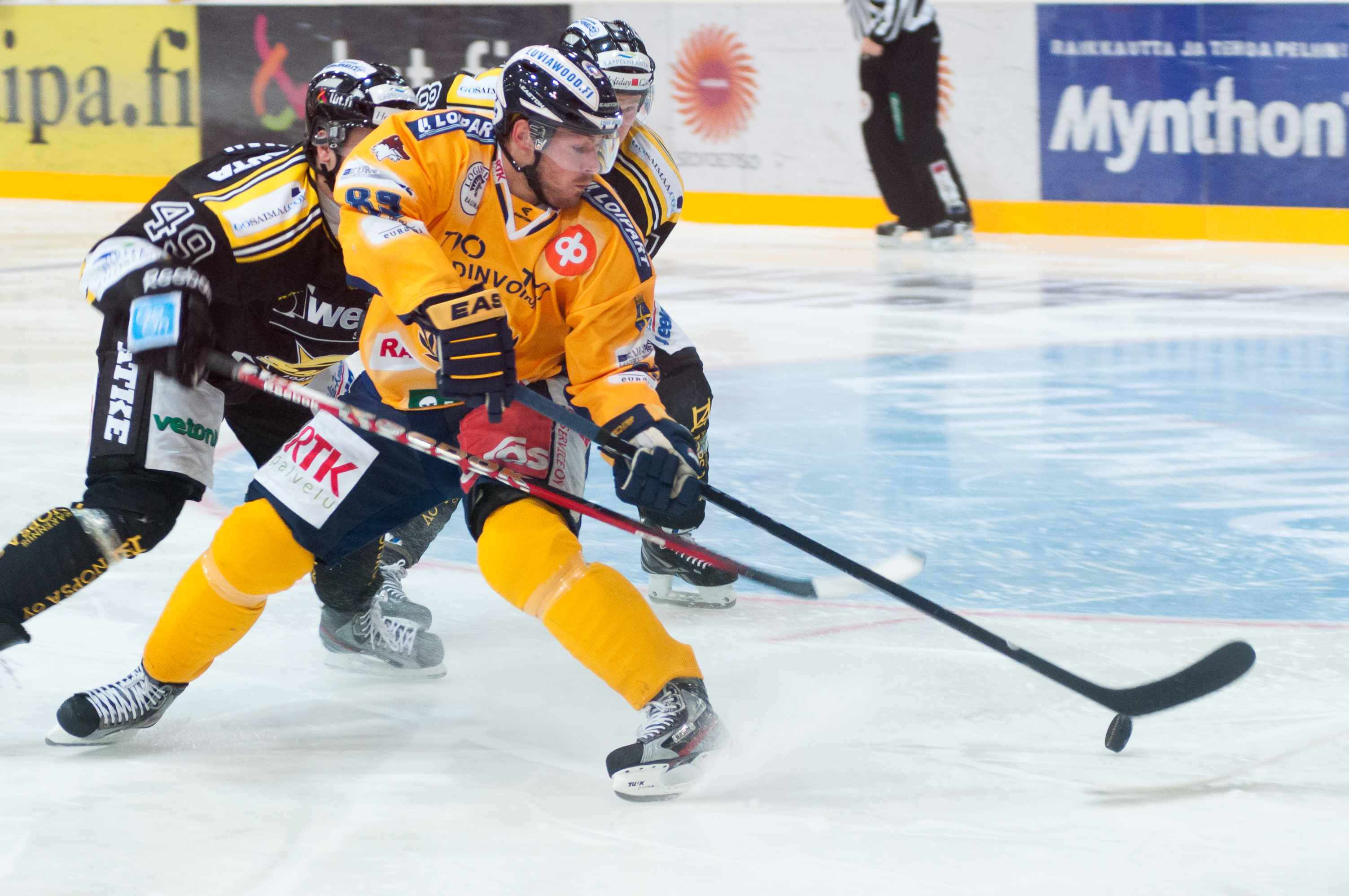 Danish ice hockey right winger Mikkel Bødker playing for Rauman Lukko against SaiPa Lappeenranta in Lappeenranta, Finland.